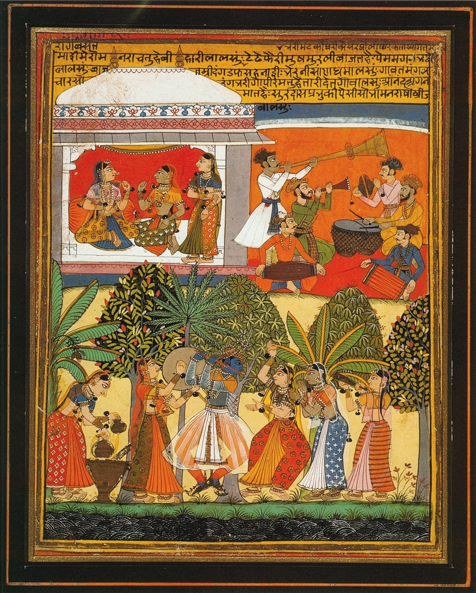 The Dance of Krishna. From manuscript Sur-Sagar of Surdas. Mewar, mid 17th century. Collection Gopi Krishna Kanoria, Patna.